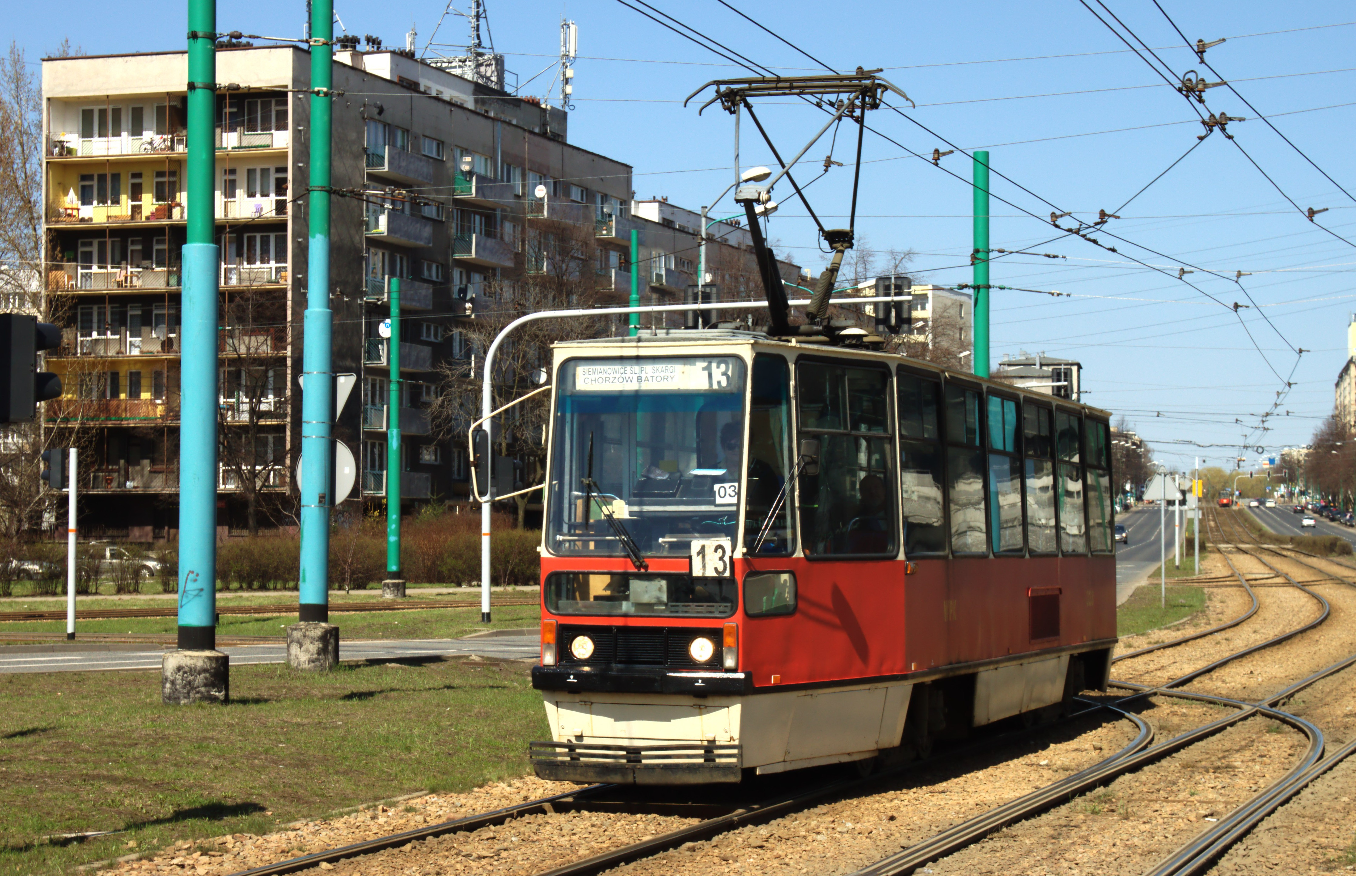 A Konstal prototype tram arriving at Rondo Generala Jerzego Ziętka in Katowice, Poland